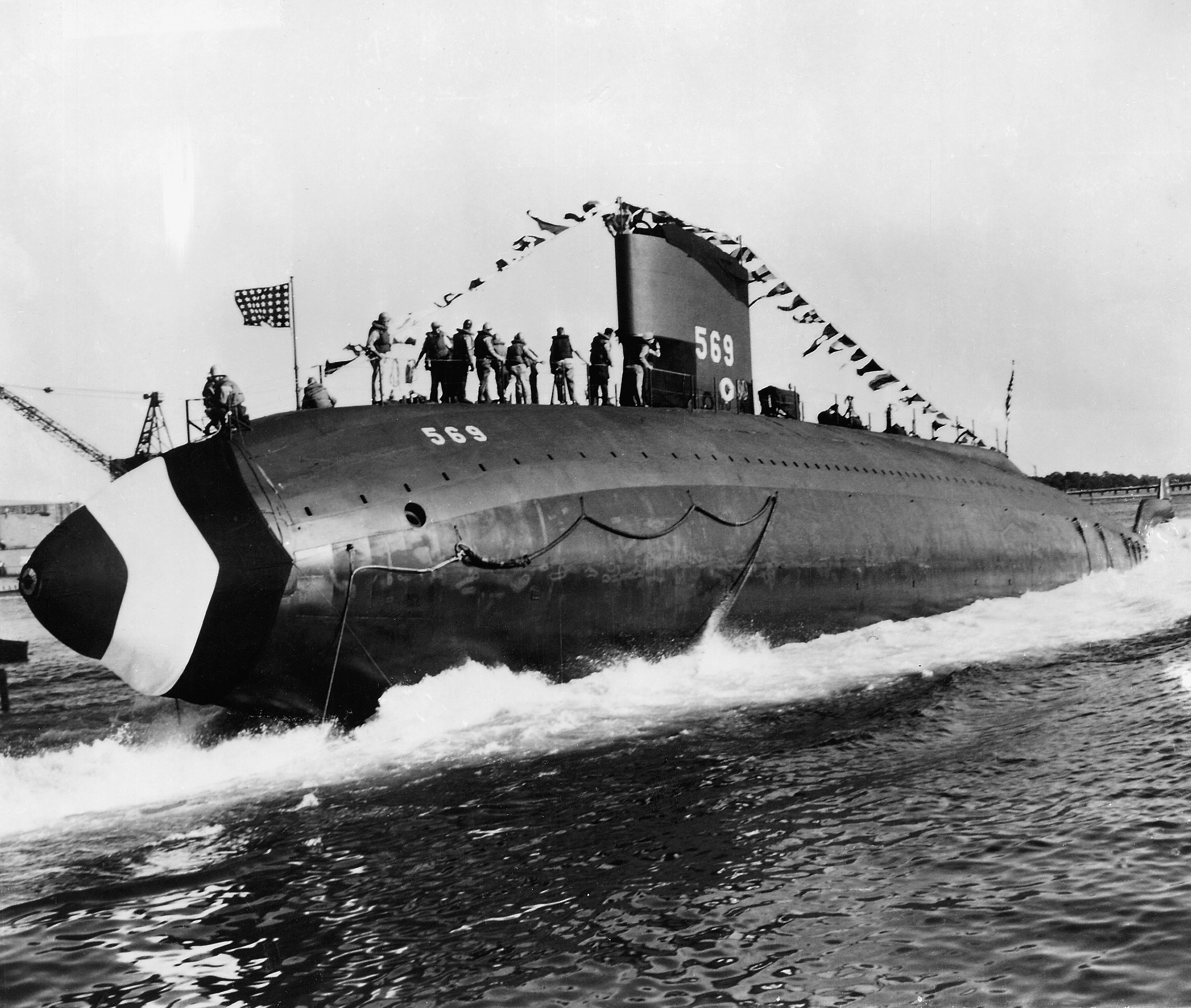 USS Albacore (AGSS-569), launching on August 1, 1953. This image is in the public domain because it was created by the United States federal government.